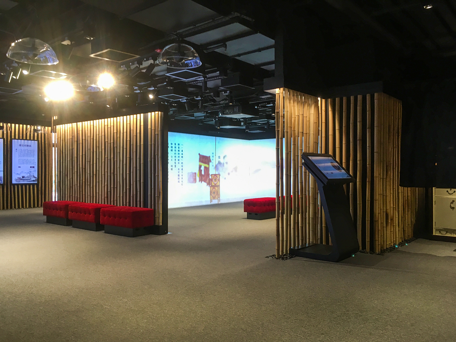 Ko Shan Road Theatre Cantonese Opera Education and Information Centre